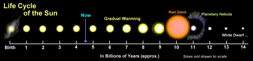 Illustration of the life-cycle of the Sun.